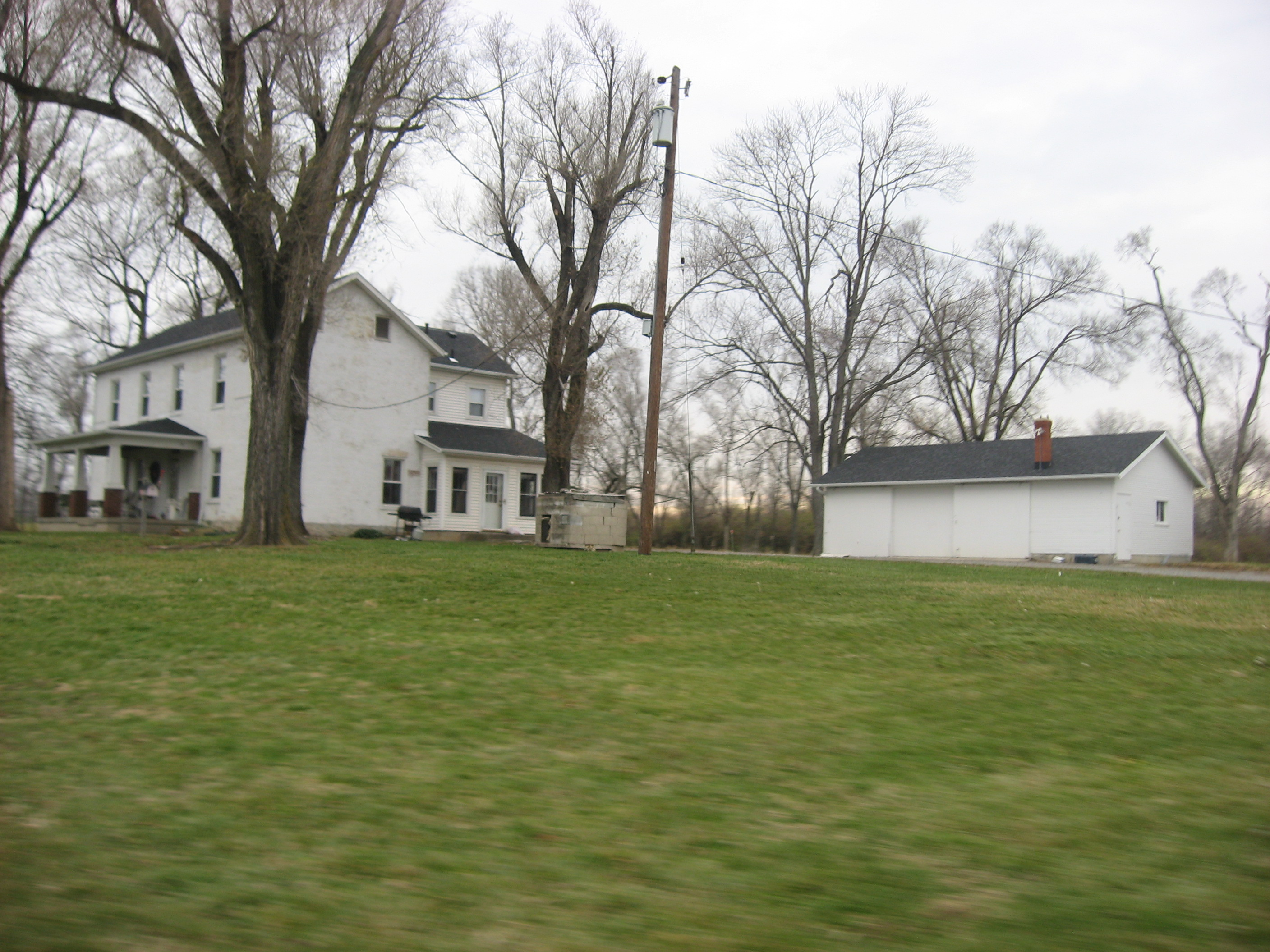 Roadside view of the house and a barn at the Christian Iutzi Farm, located at 2180 Woodsdale Road south of Trenton in Madison Township, Butler County, Ohio, United States. Built in 1834 (house), the farm is listed on the National Register of Historic Places.